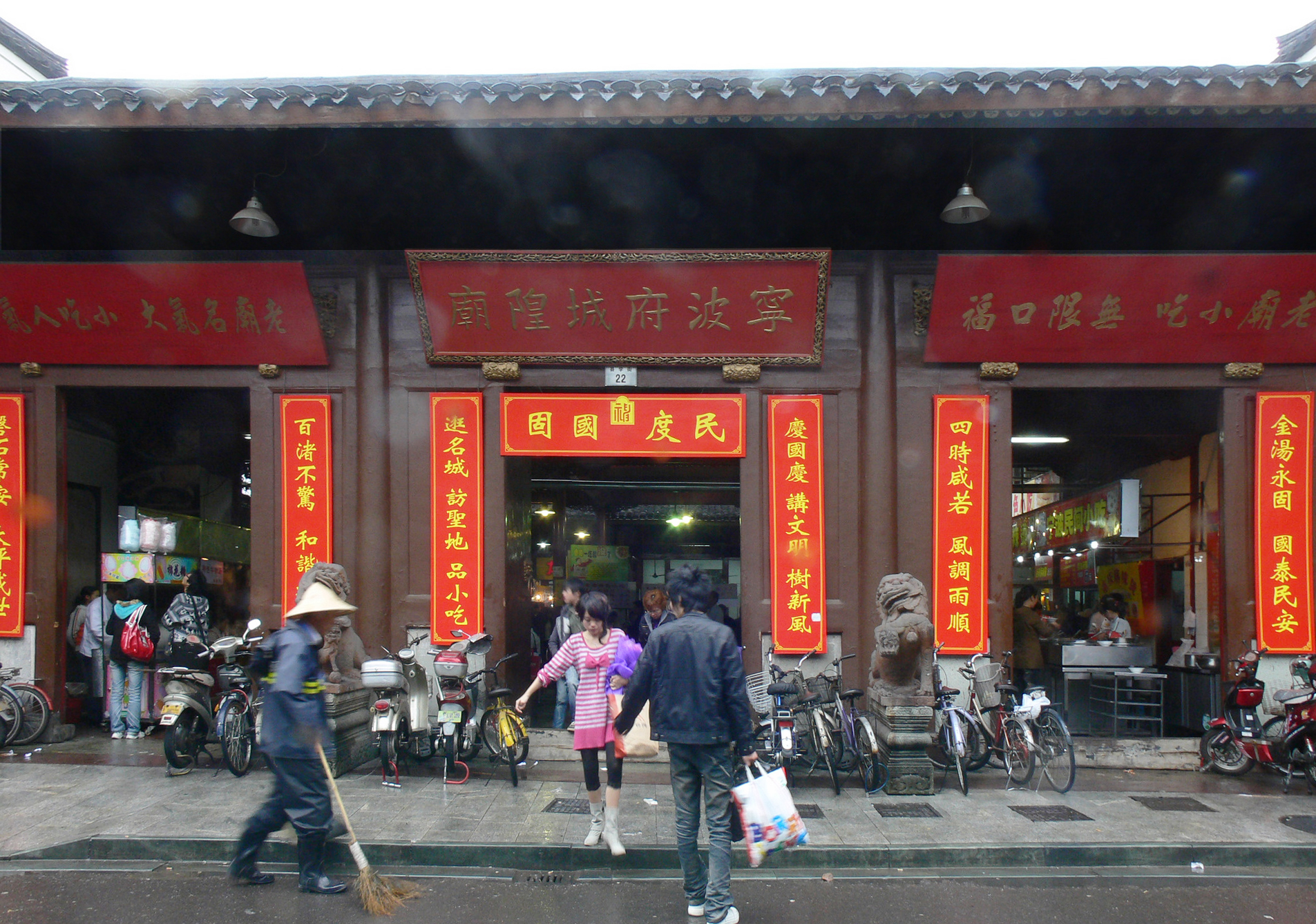 Ningbo City God Temple